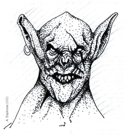 Drawing of an orc.